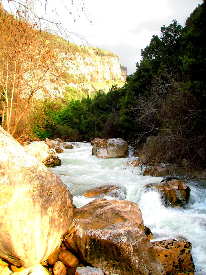 Nahr Ibrahim,the "River of Abraham."